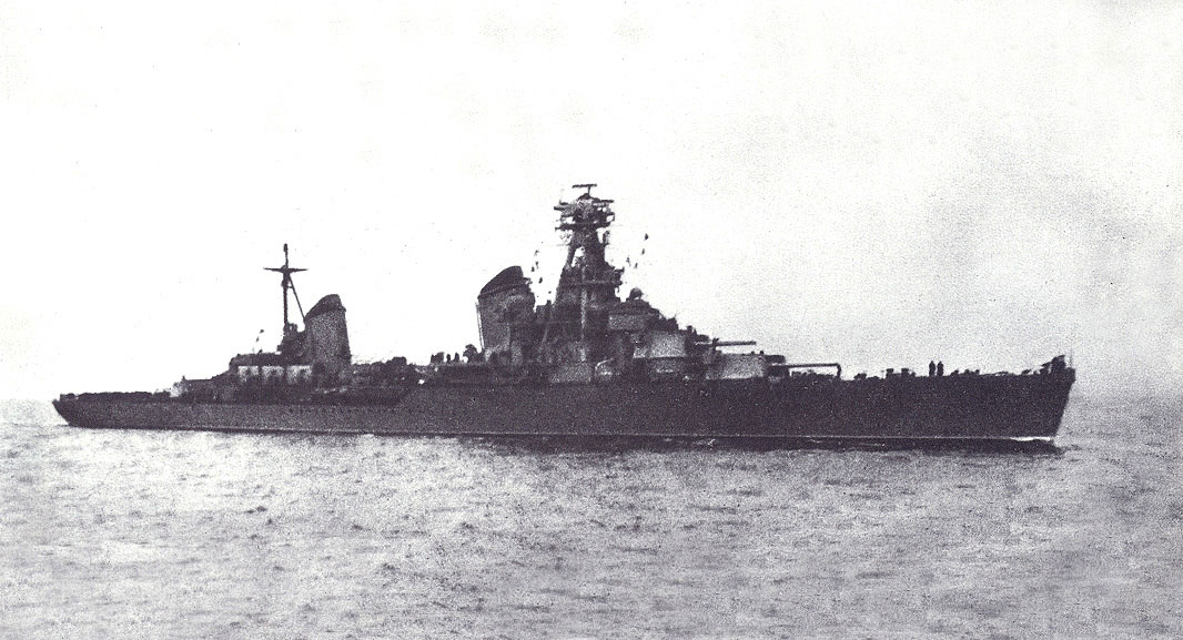 The Soviet cruiser Voroshilov.